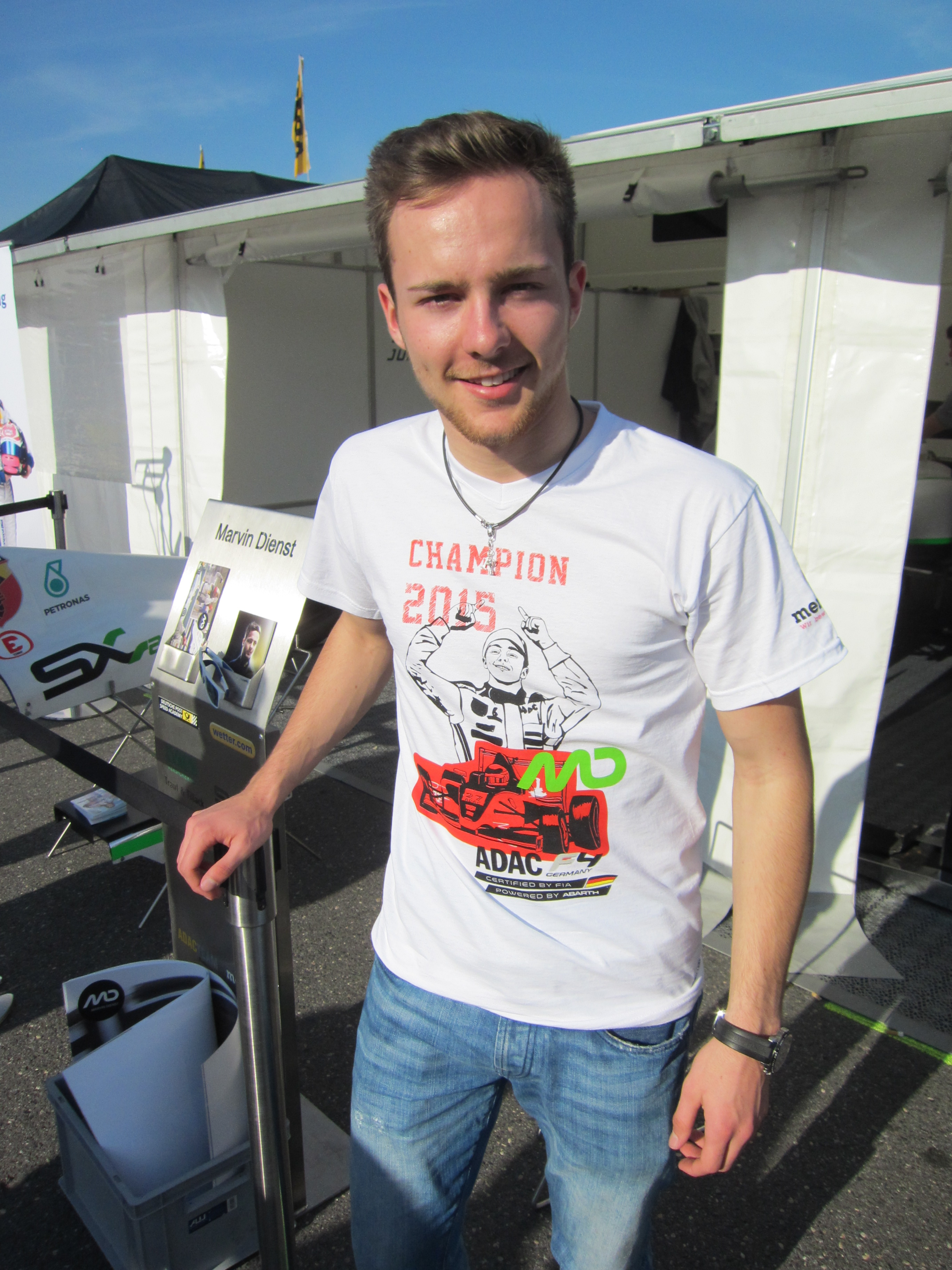 Marvin Dienst: the photo was taken during 2015's ADAC GT Masters race weekend at Hockenheim